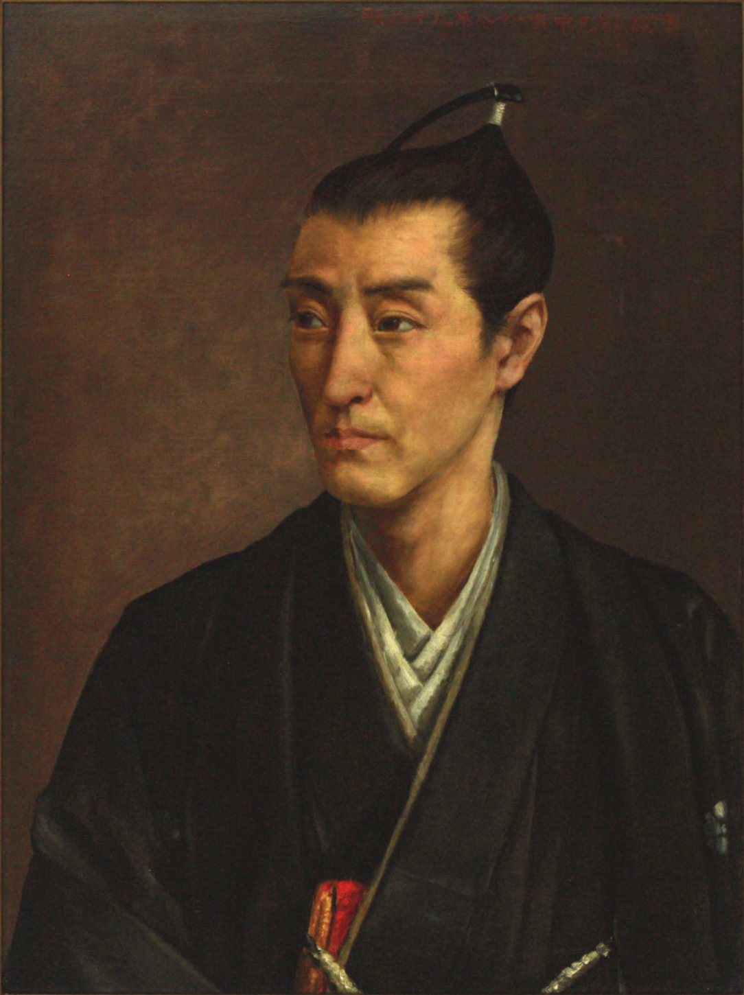 Portrait of Hiraga Gennai, by Nakamaru Seijuro, Waseda University Library, Japan